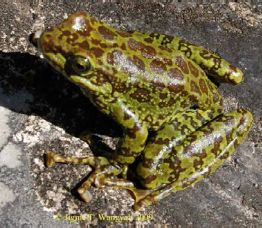 Amolops mantzorum from Trashiyangtse District, Bhutan. Photo by Jigme Tshelthrim Wangyal, published in Wangyal, J. T. 2013. New records of reptiles and amphibians from Bhutan. Journal of Threatened Taxa 5:4774–4783.